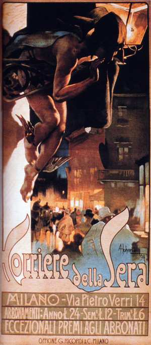 Advertising Poster: Corriere della Sera (Italian Journal), Milan, Italy.